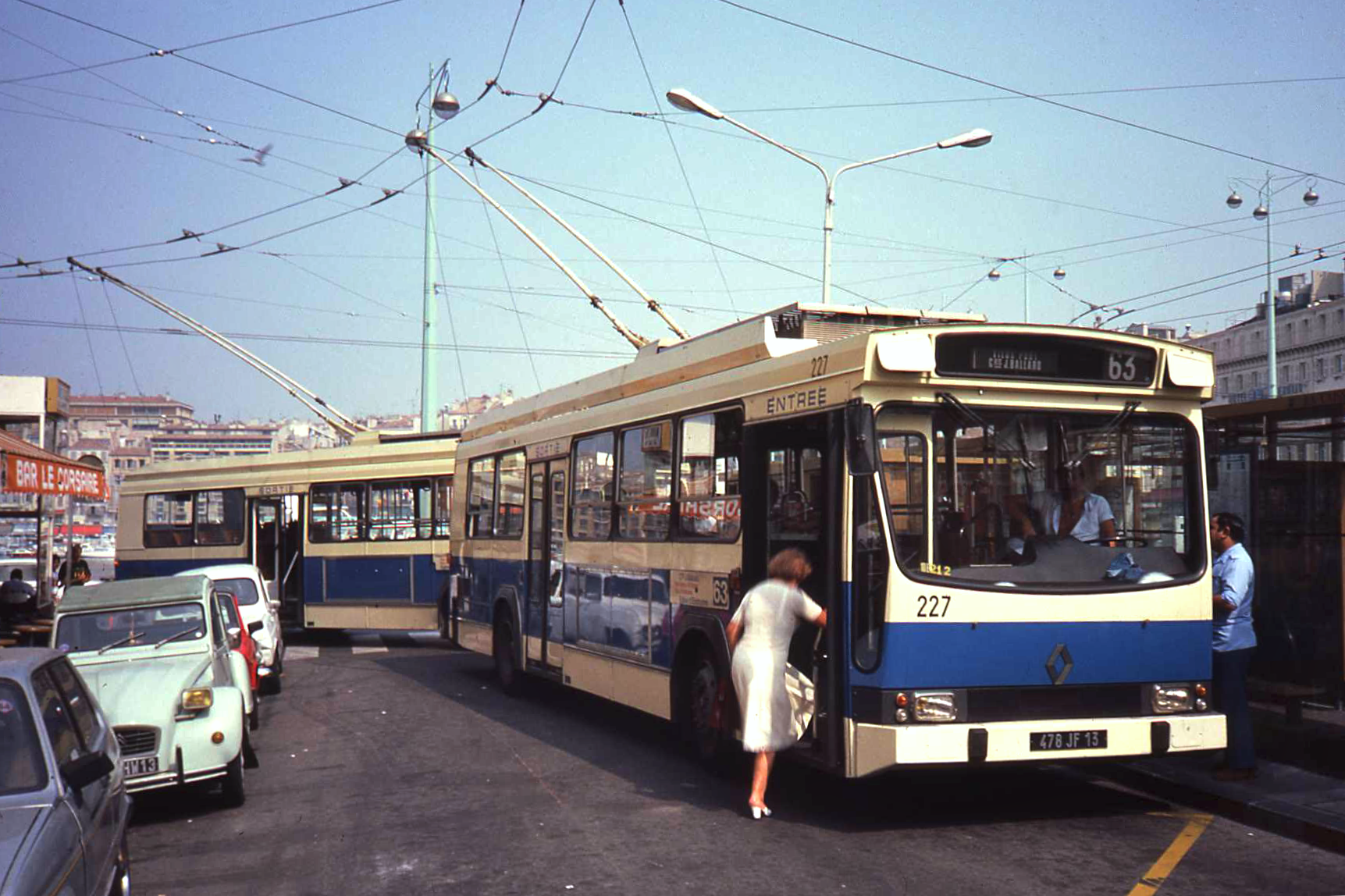 Renault ER100 trolleybus in Marseille in 1984. There are no more trolleybuses here today. (digitalized op 31/01/2010)